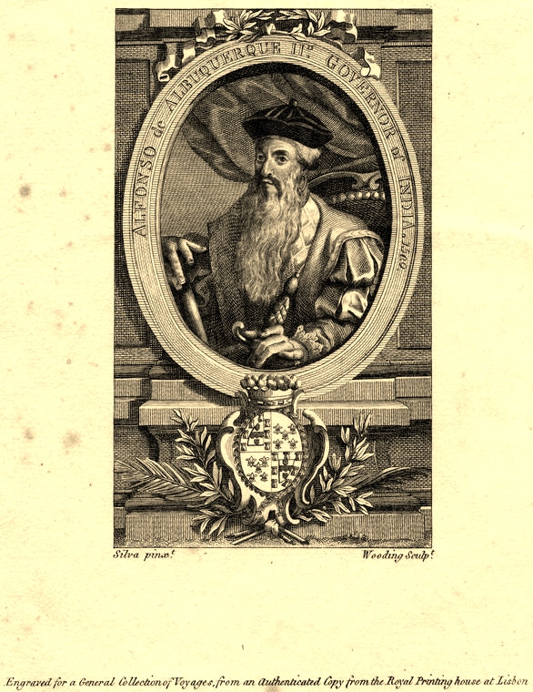 Image Title: Alfonso de Albuquerque II, governor of India, 1509. Source: Print Collection portrait file. / A / Alfonso de Albuquerque. Location: Stephen A. Schwarzman Building / Print Collection, Miriam and Ira D. Wallach Division of Art, Prints and Photographs Digital ID: 495386 Record ID: 339039 Digital Item Published: 2-3-2004; updated 3-2-2012